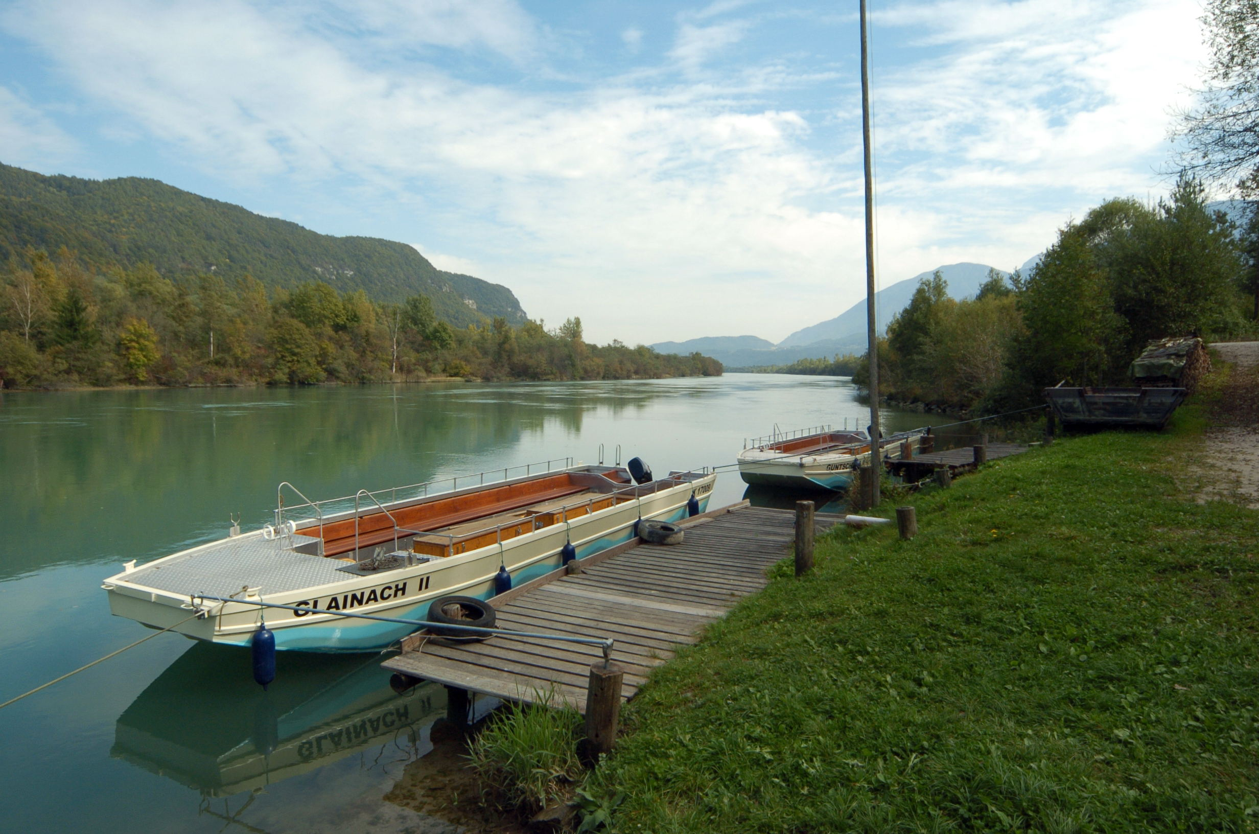 Ferry-boats on the storage lake of the river Drau (with the Sattnitz on the left) near the village Glainach in the community Ferlach, district Klagenfurt-Land, Carinthia, Austria.